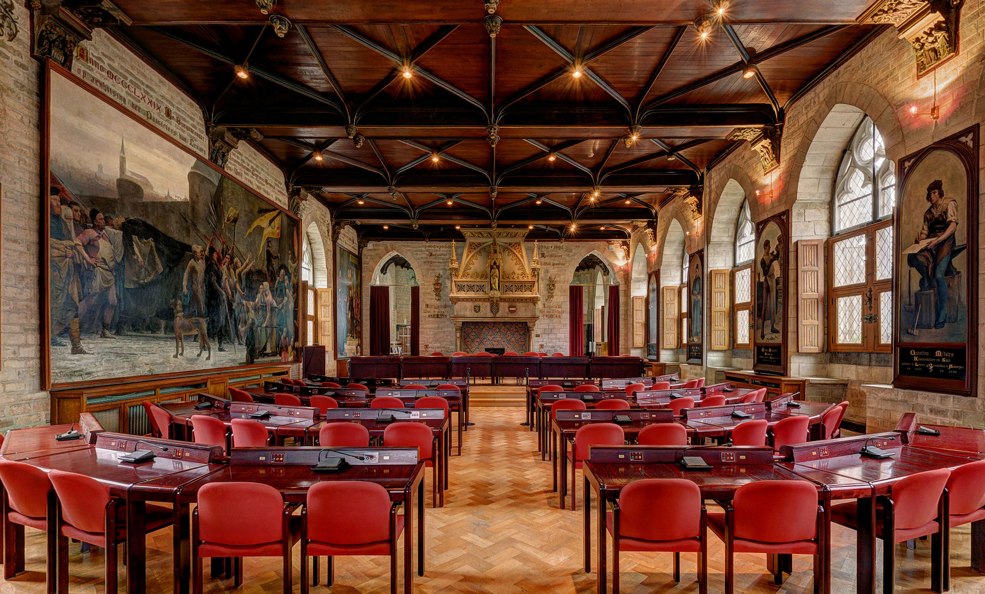 Town Hall Leuven | Gothic Hall